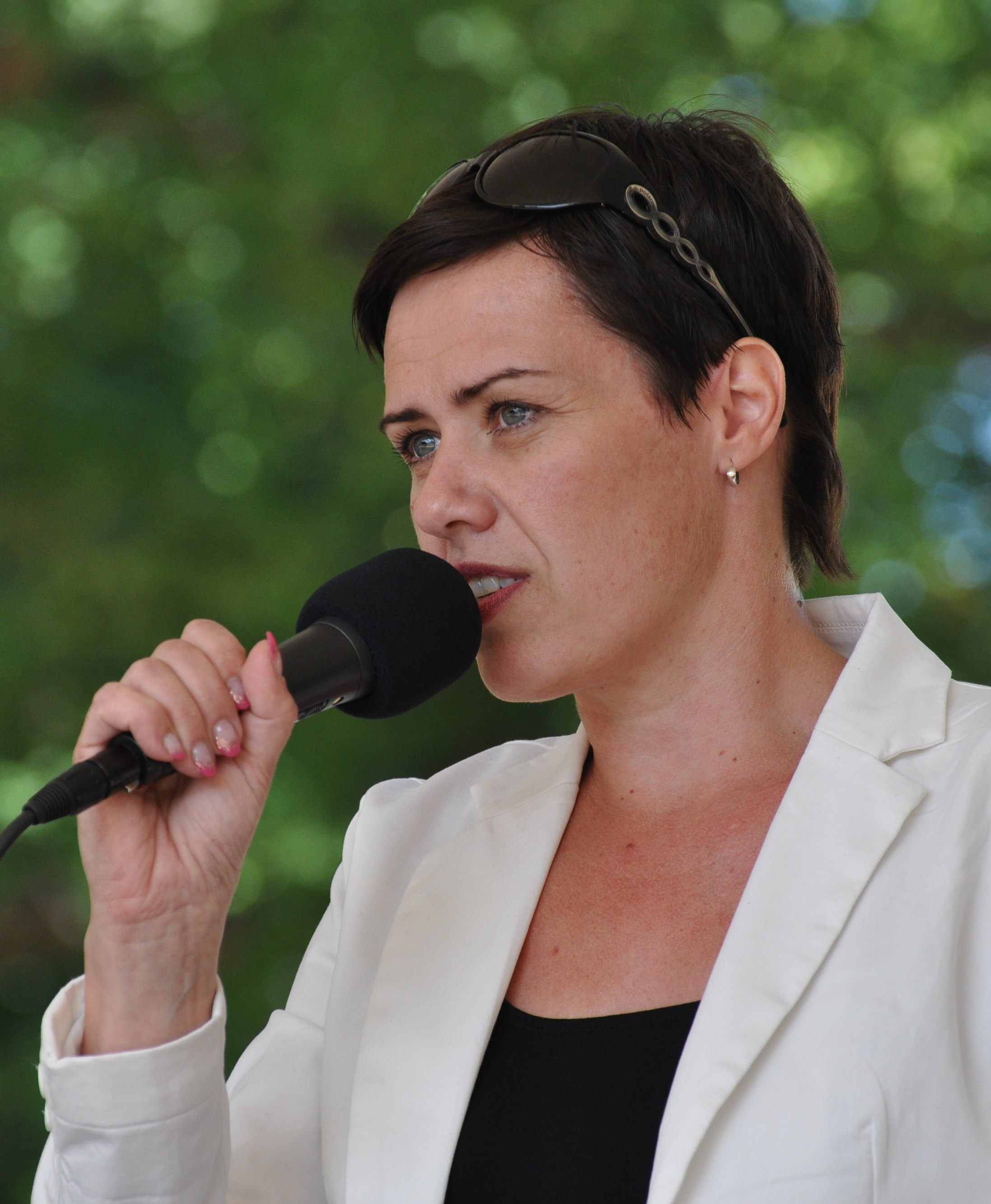 Finnish MP Maarit Feldt-Ranta at SuomiAreena in Pori, 2012.